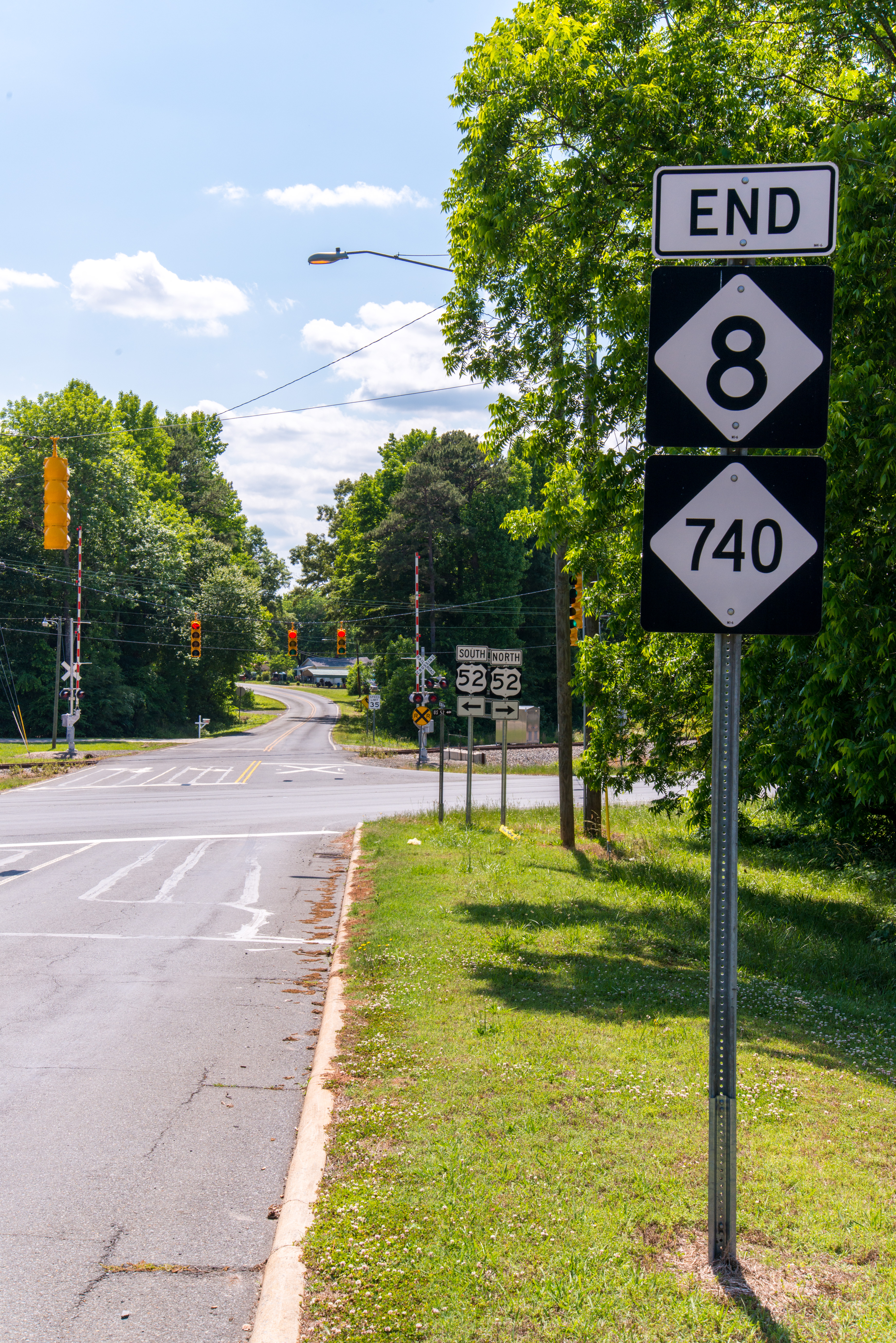 End of NC 8 (South) and NC 740 (north), at the intersection with US 52, in New London, North Carolina